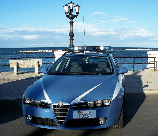 Alfa Romeo 159SW police car in Bari, Italy